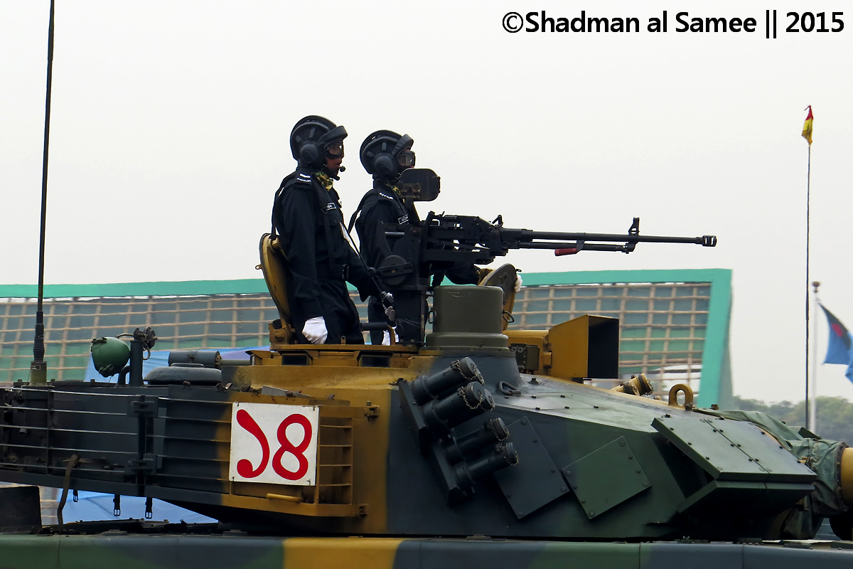 MBT-2000 tank crew: Bangladesh Army